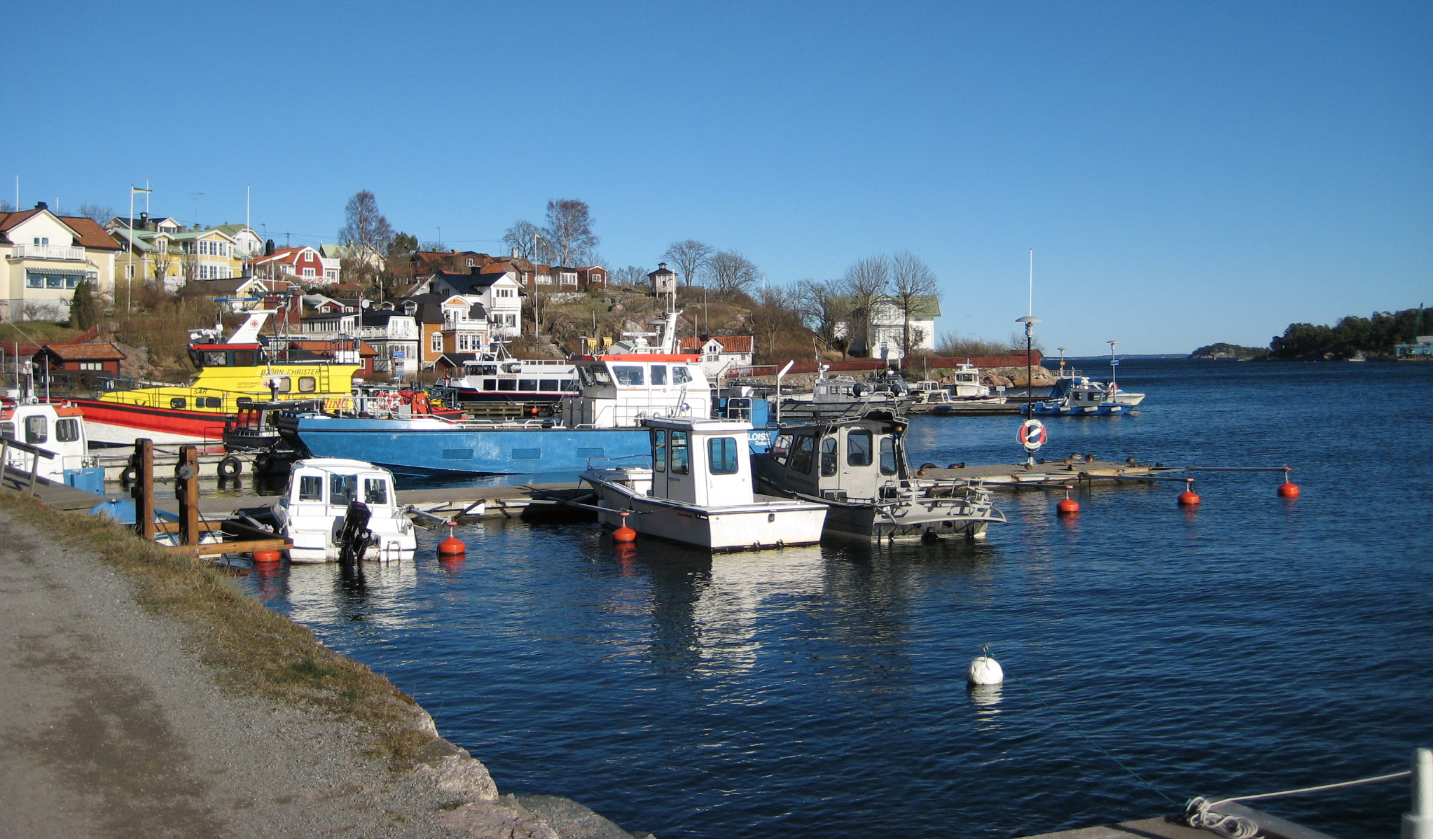 Fishing harbour (Fiskarhamnen) in Dalarö (Haninge municipality, Stockholm archipelago, Sweden)